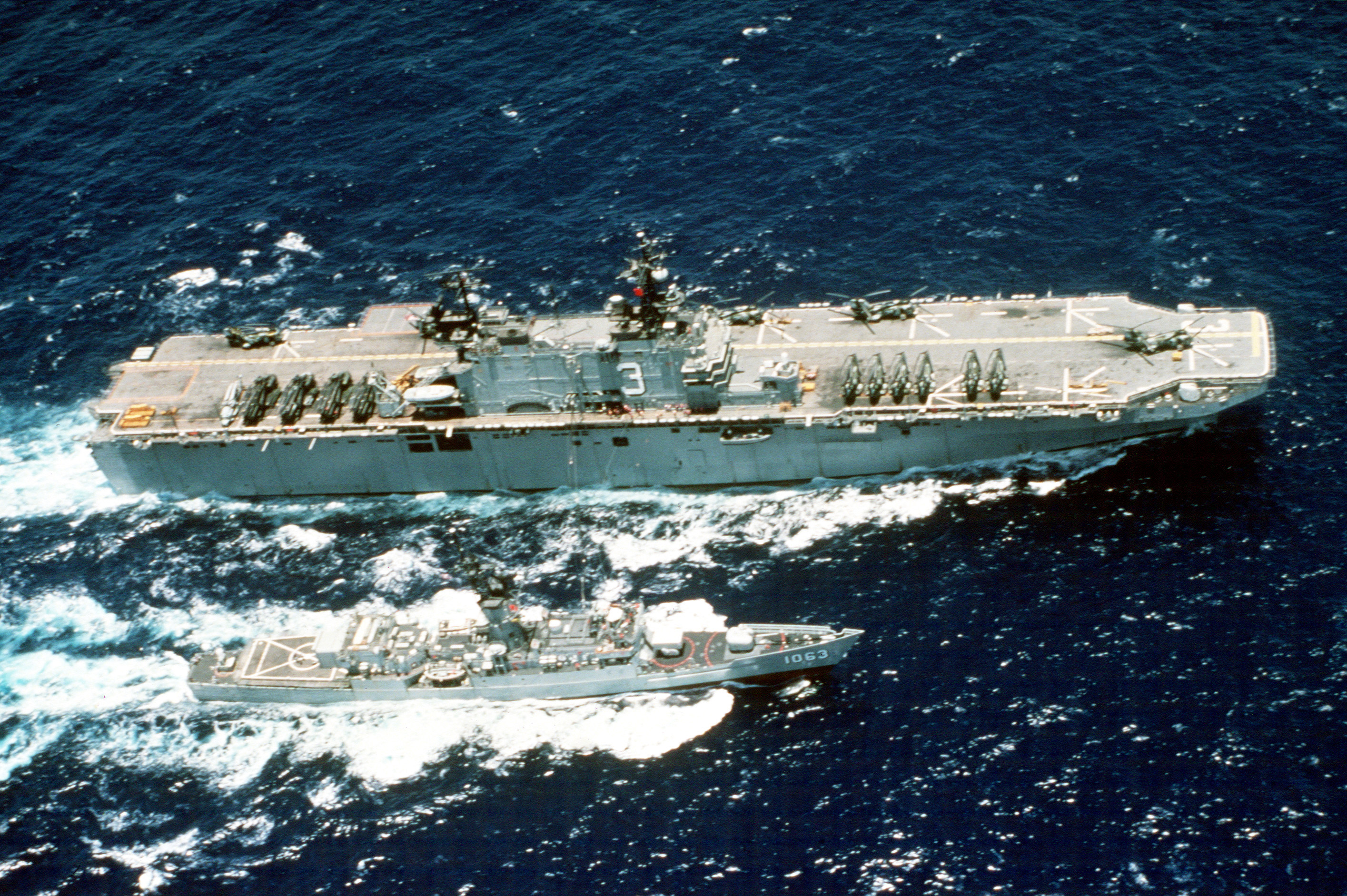 The U.S. Navy amphibious assault ship USS Belleau Wood (LHA-3), top, and the frigate USS Reasoner (FF-1063) sail alongside one another during the multinational Exercise RIMPAC '90.